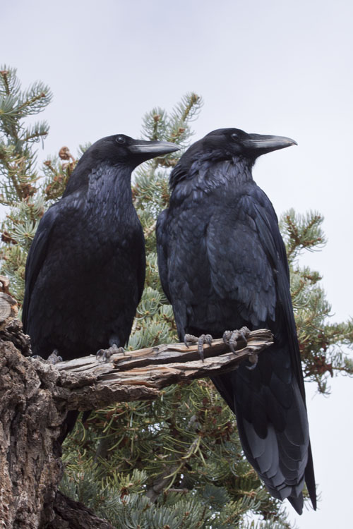 A pair of Common Raven at Bryce Canyon National Park, Utah, USA.